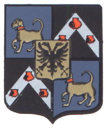 Coat of arms of Lovendegem, Belgium